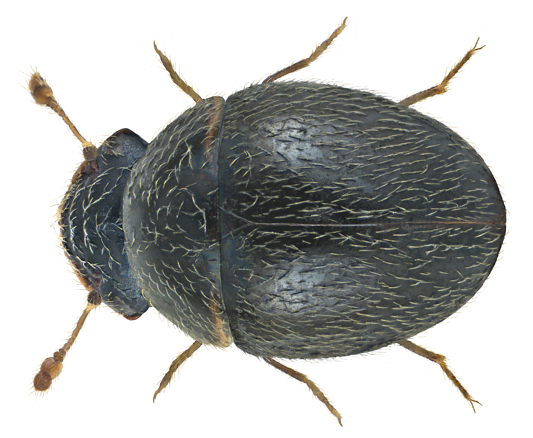 Family: Clambidae Size: 1,3 mm (1,0 to 1.3 mm) Origin: Europe Ecology: unknown way of life, for example under rotting leaves Location: Germany, Bavaria, Upper Franconia, Carlsgruen, Kroetenmuehle leg.det. U.Schmidt, 11.IV.2001 Photo: U.Schmidt, 2015